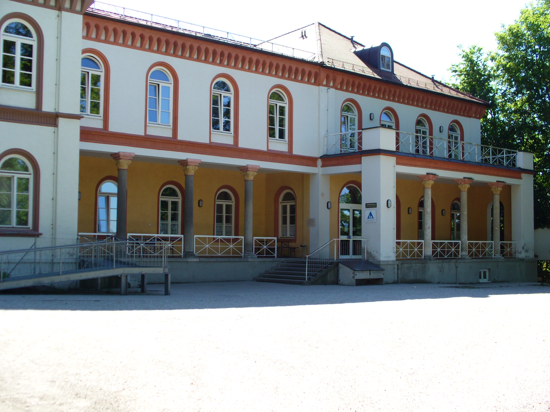 YMCA in Landshut, Germany